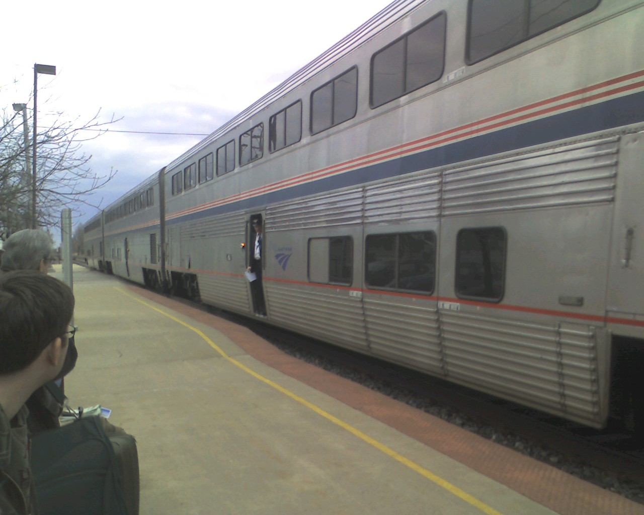 The platform at Osceola Station.